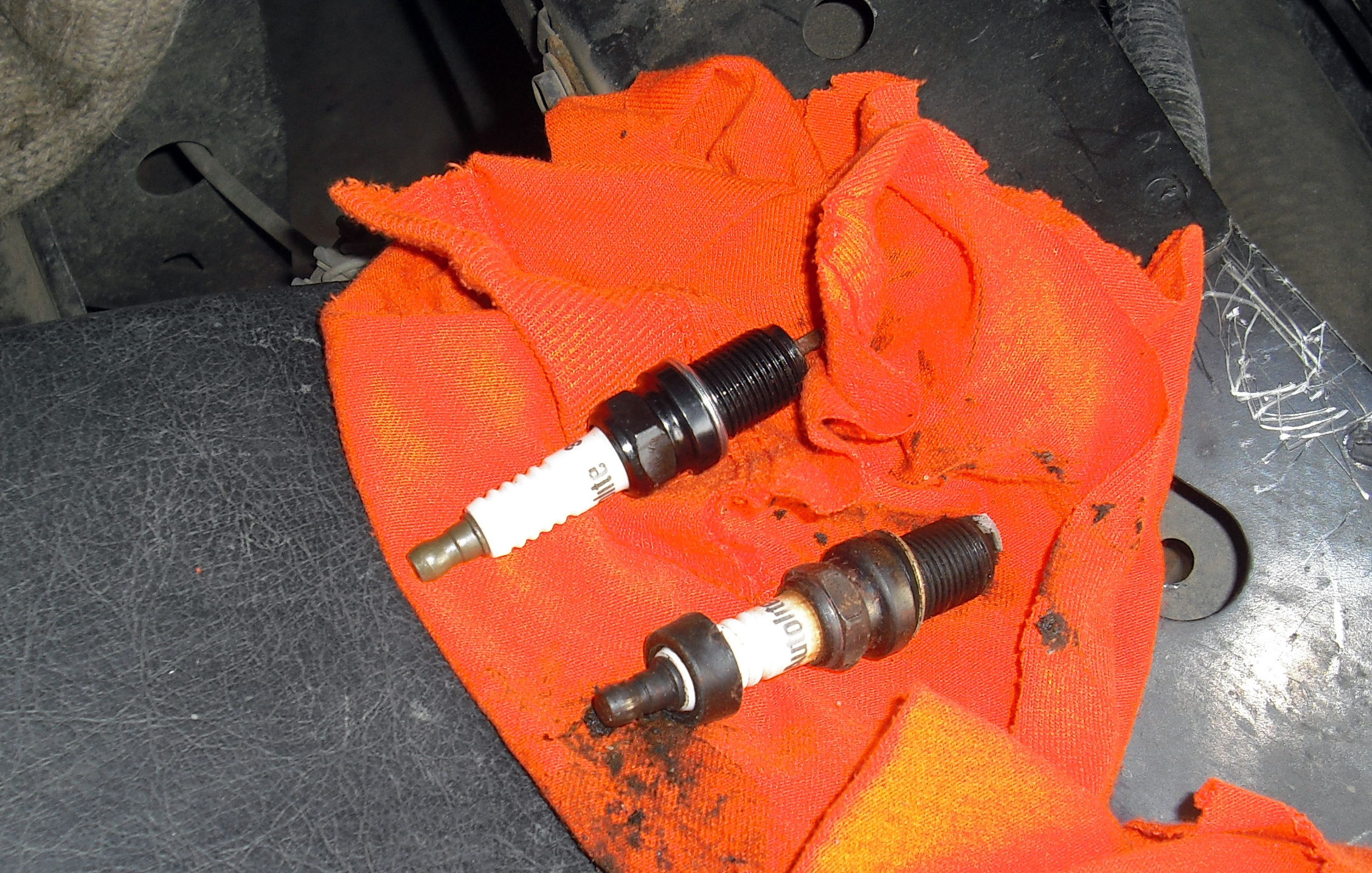 I Myke waddy took this photo. Canada Myke Waddy the creator of this work, hereby releases it into the public domain.